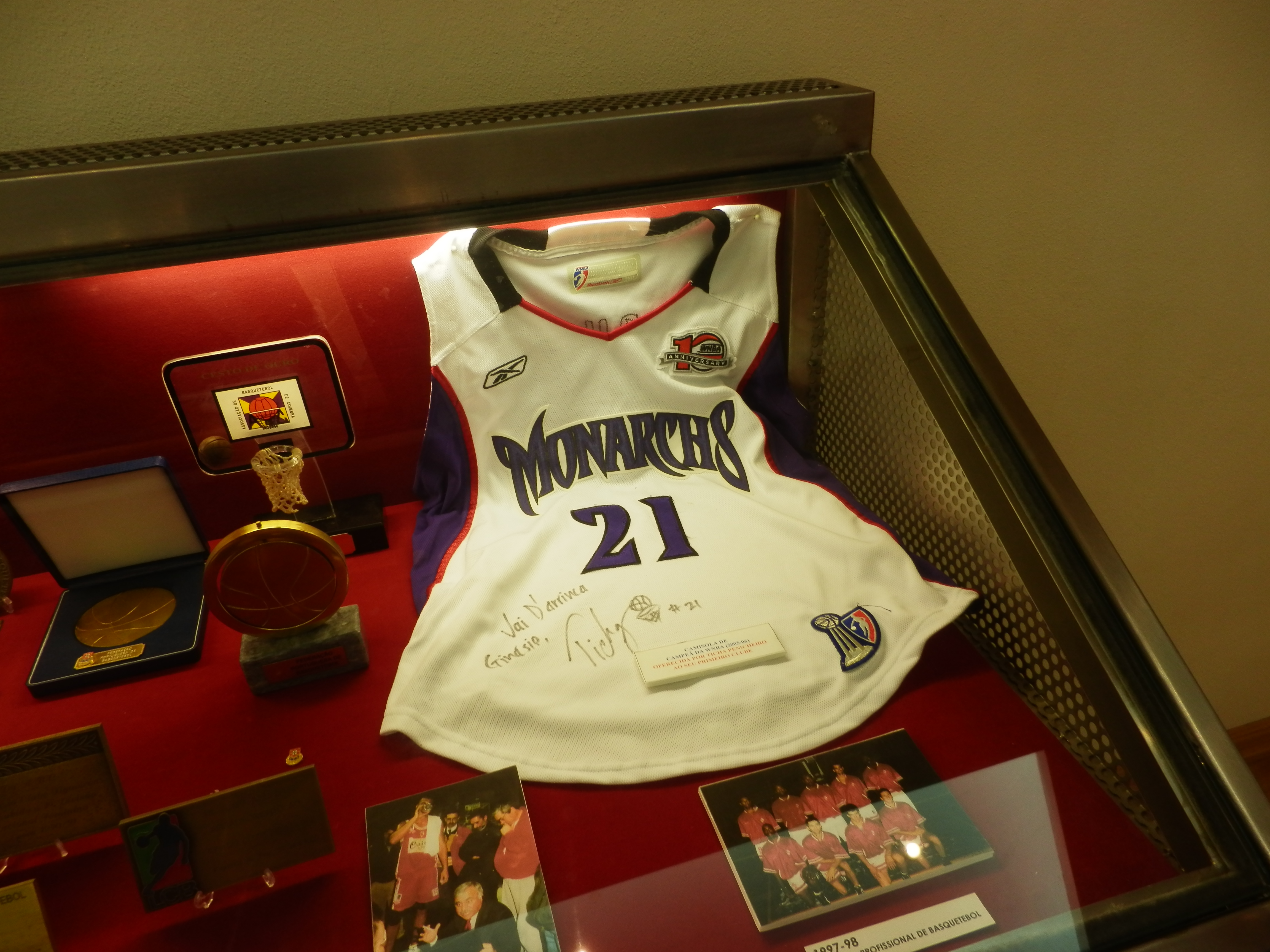 Ticha Penicheiro Monarchs shirt at Ginásio Figueirense